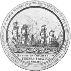 Etching of Congressional Gold Medal awarded to Thomas Truxtun, medal authorized by Congress March 29, 1800, Presented to Truxton date unknown